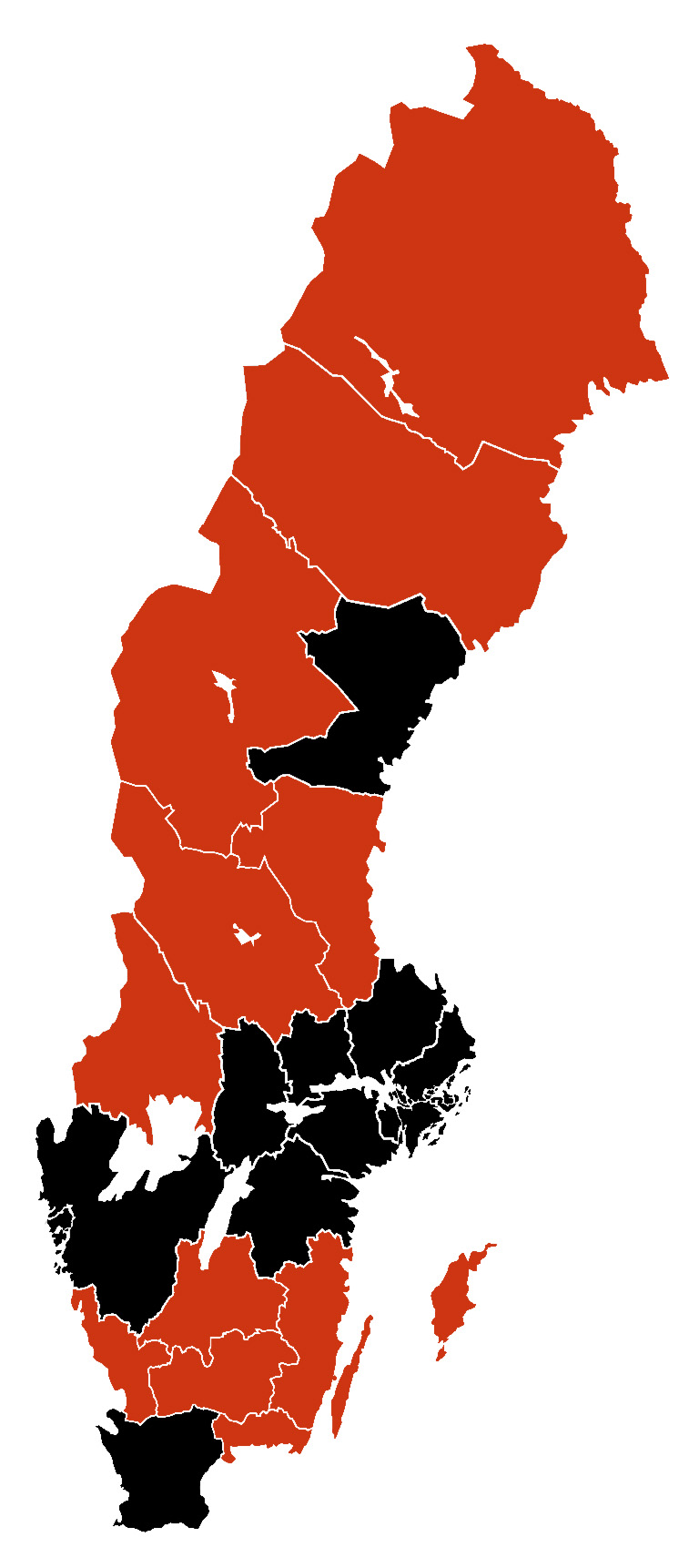 Confirmed deaths Confirmed cases Suspect cases No cases